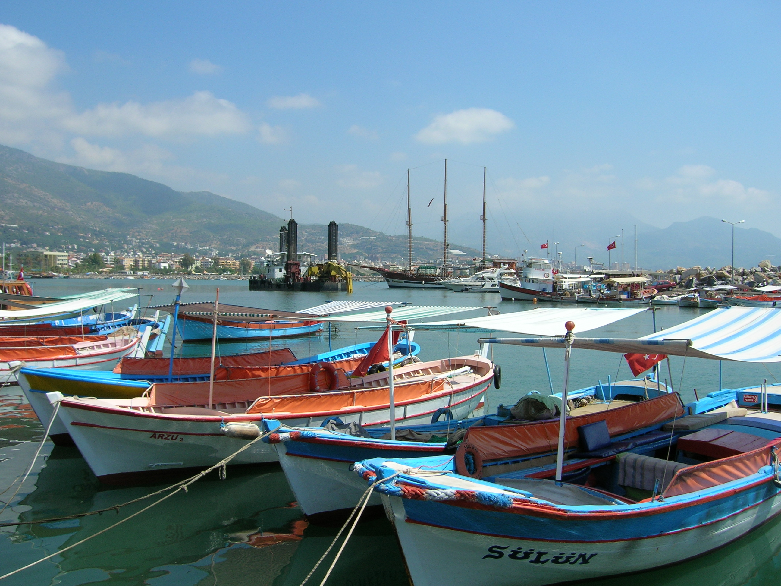 colorful tourist boats in Alanya harbor